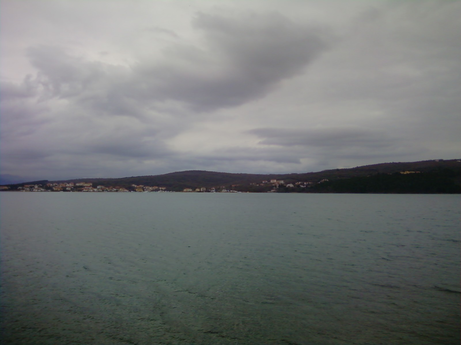 Village Klimno in Soline bay on island Krk in Croatia